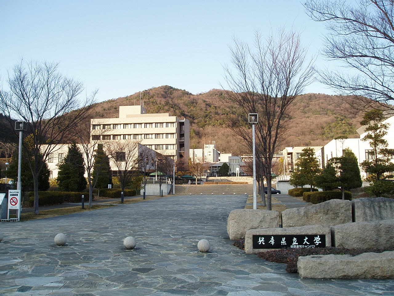 The main gate of Himeji-Shosha-Campus, University of Hyogo. Located in Himeji, Hyogo Prefecture, Japan.